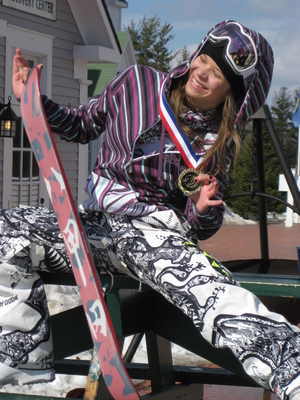 Sonia Dragan with gold medal at US Skiboard Open 2009